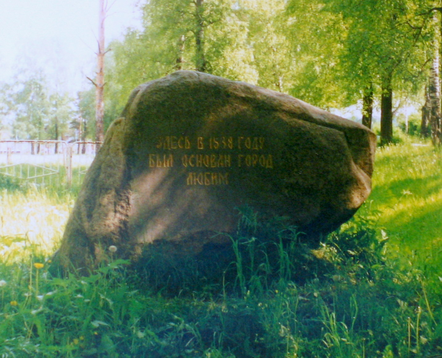 Russian town Lyubim, Yaroslavl region. Stone at the place where town was founded. "Here in year 1538 town Lyubim was founded".